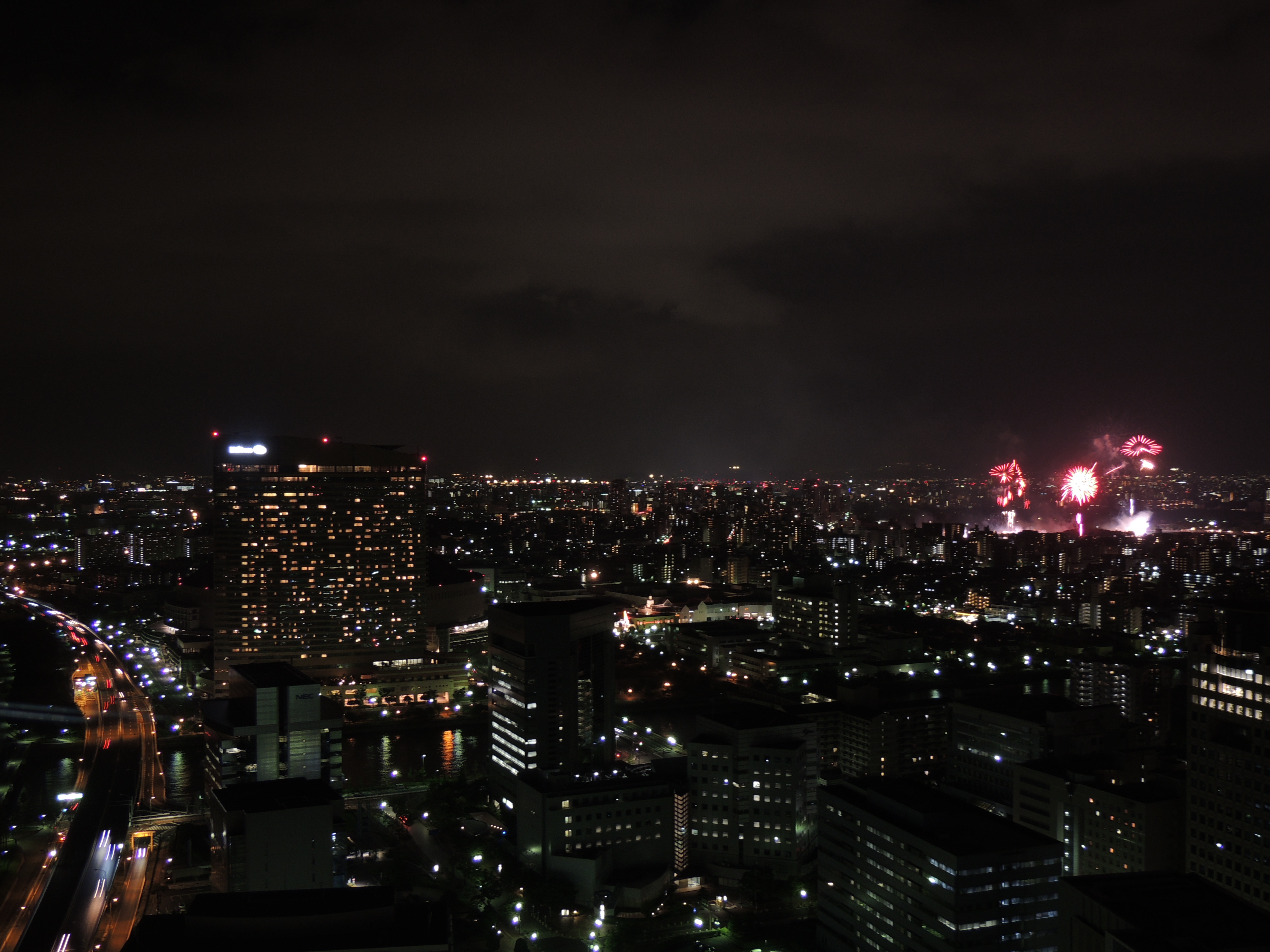 Seaside Momochi(Fukuokadome and HiltonHotel) and Fireworks from Fukuoka Tower.